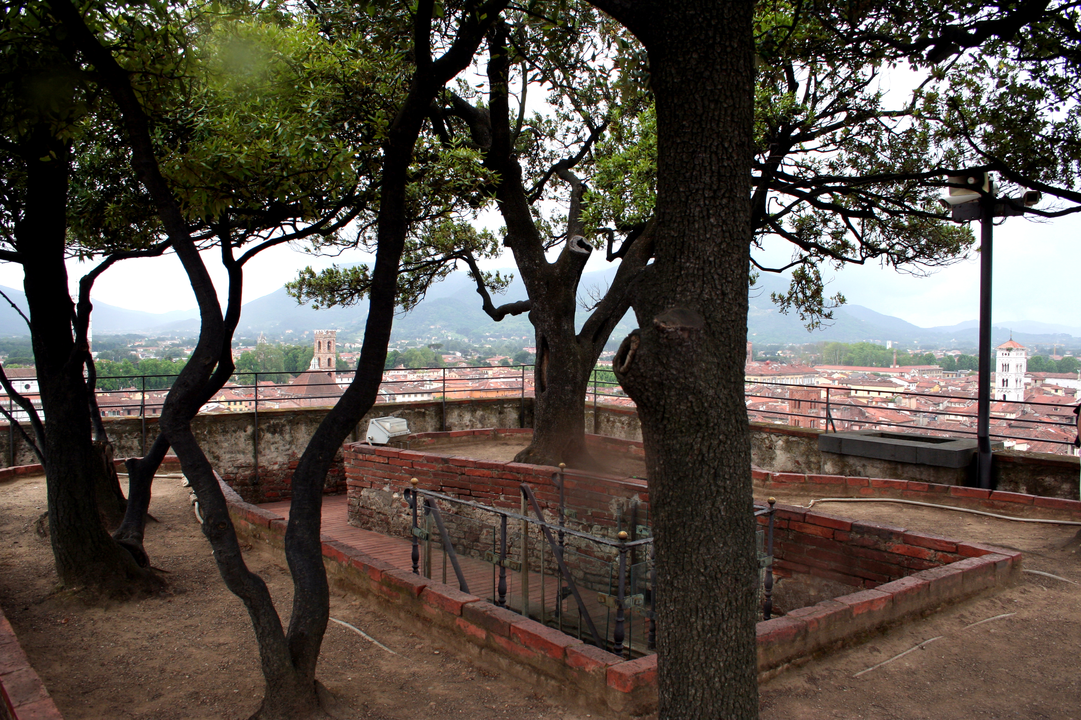 The top of the Torre Guinigi; These trees are growing out of the roof and have done for quite some time.